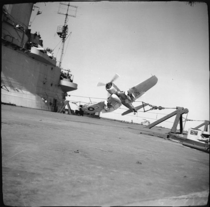 The Royal Navy during the Second World War Lieutenant P S Cole DSC, RN, back from strafing airfields in Formosa, makes a crash landing in his Chance-Vought Corsair and finishes up near the island of HMS ILLUSTRIOUS in eastern waters. He climbed out and firefighters saw that the machine did not catch fire. Here the aircraft can be seen in mid air and about to collide with the aircraft carrier's island.